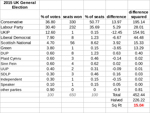 Gallagher Index, 2015 UK General Election